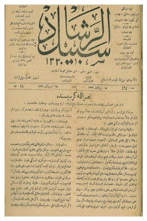 Sebilürreşad